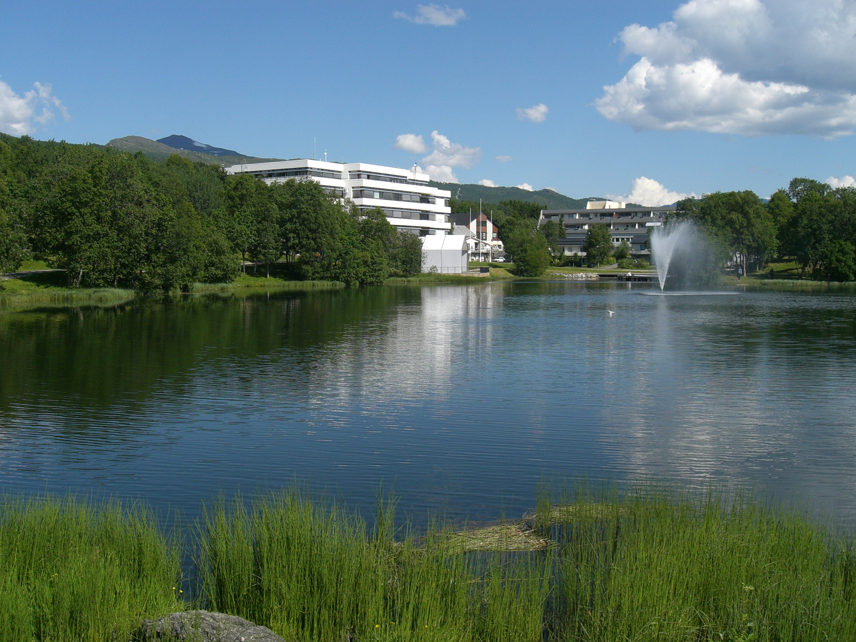 Finnsnes, administrative center of Lenvik, province of Troms, Norway. Summer 2007